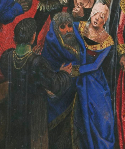 Detail of Charles VI of France huddling under the Duchesse of Berry's skirts at the fiery Bal des Ardents in 1393